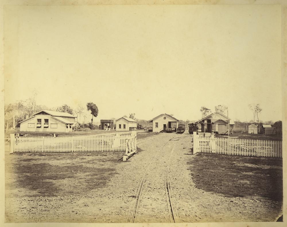 Bundaberg Station in 1882. Railway station, railway platforms, sheds and railway buildings at North Bundaberg, on the Mount Perry Line.